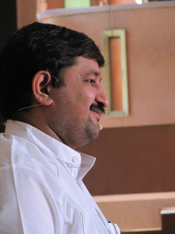 chaitanay maharaj deglurkar